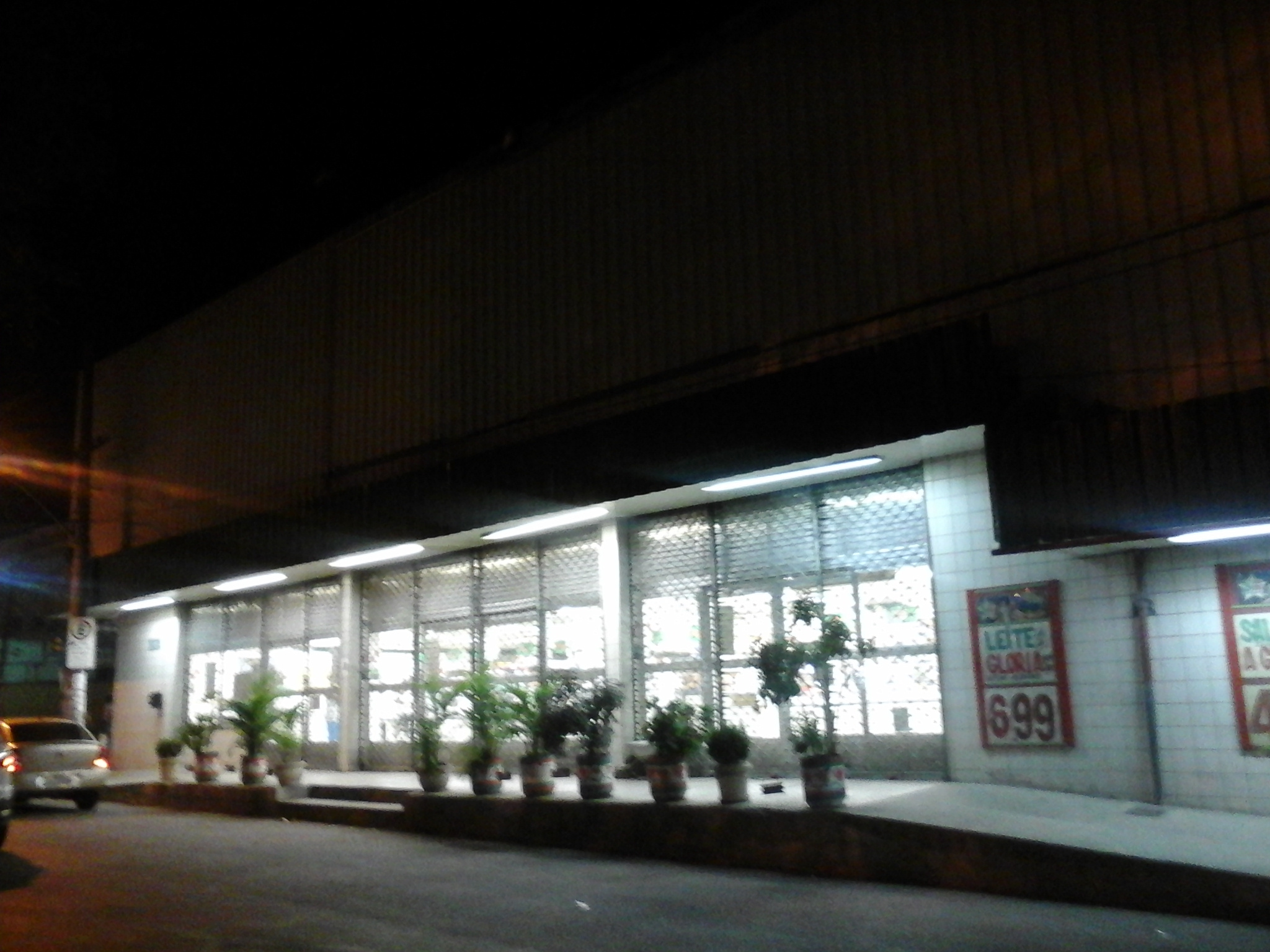 Supermarket da Posse